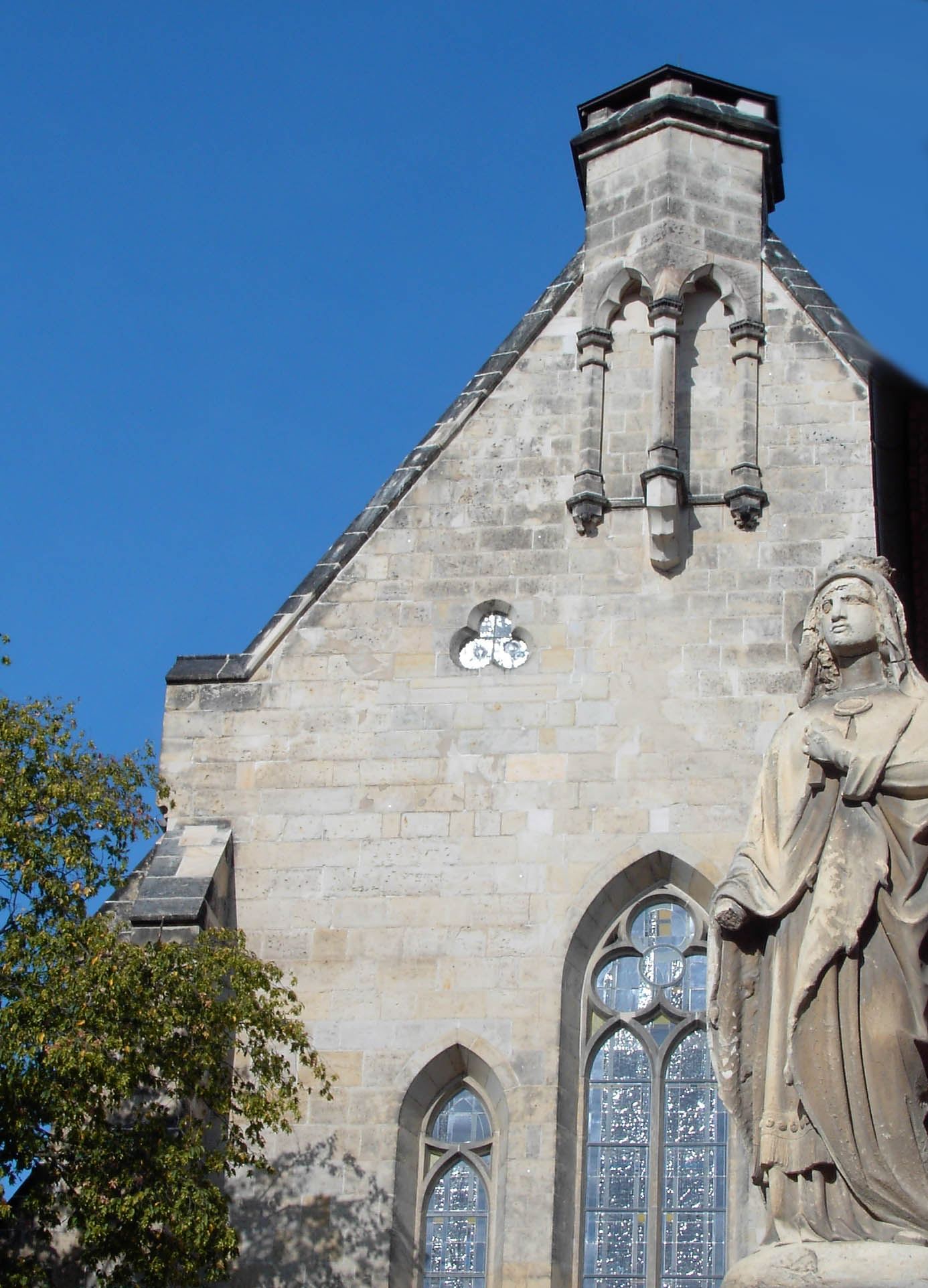 Church St. Mathildis in Quedlinburg, Germany